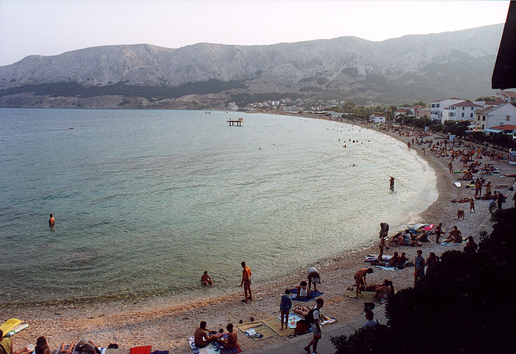 the bay of Baška at the isle Krk in Croatia